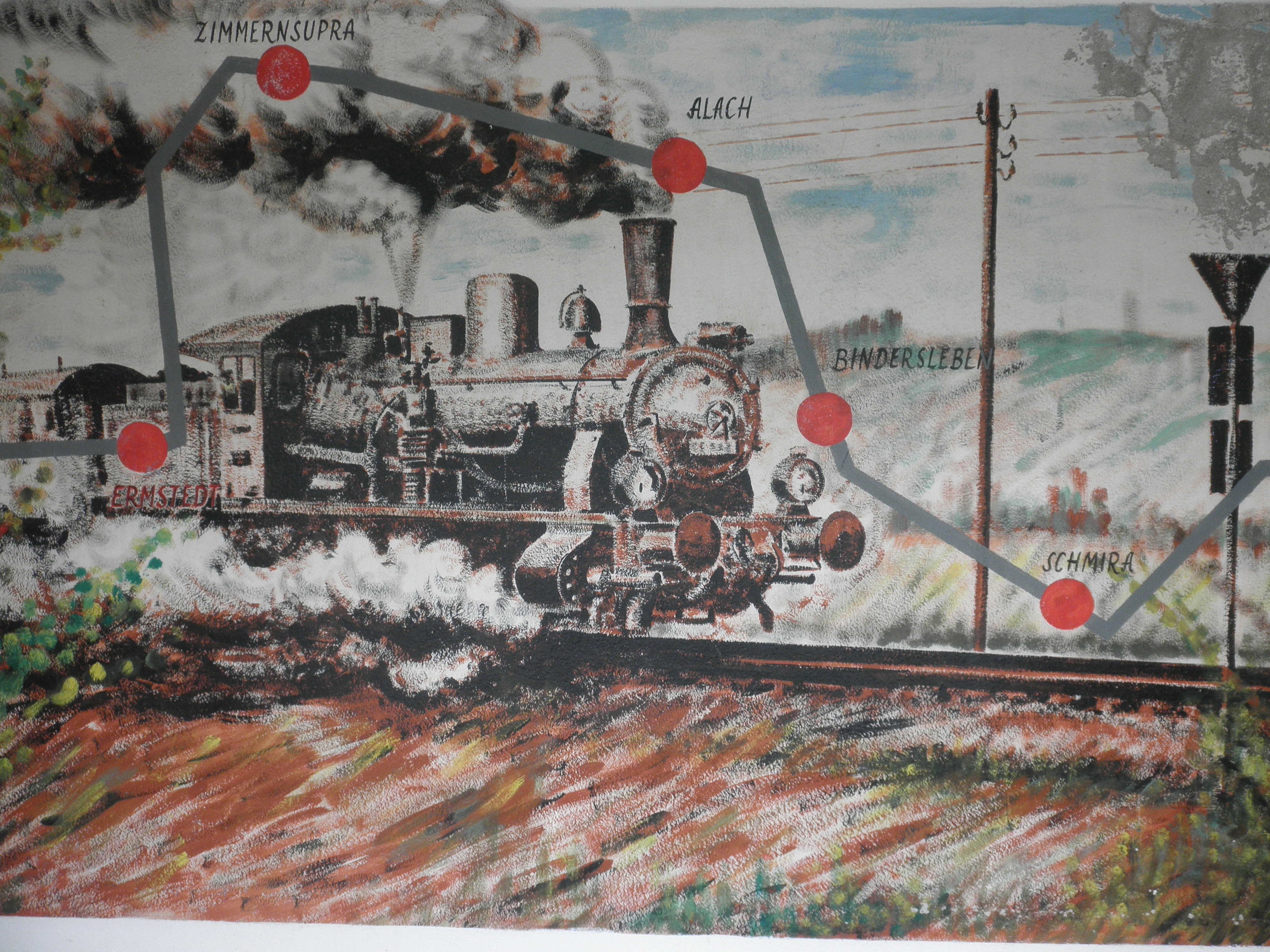 Former Railway Station Ermstedt